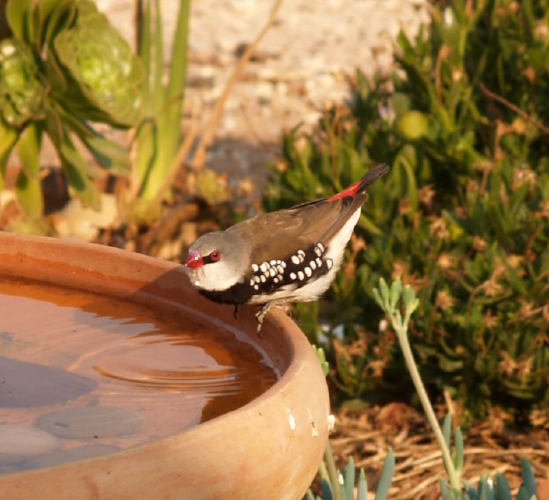 Stagonopleura guttata Spotted in our garden for the first time. A very attractive bird. We hope there will be many more of them visiting.